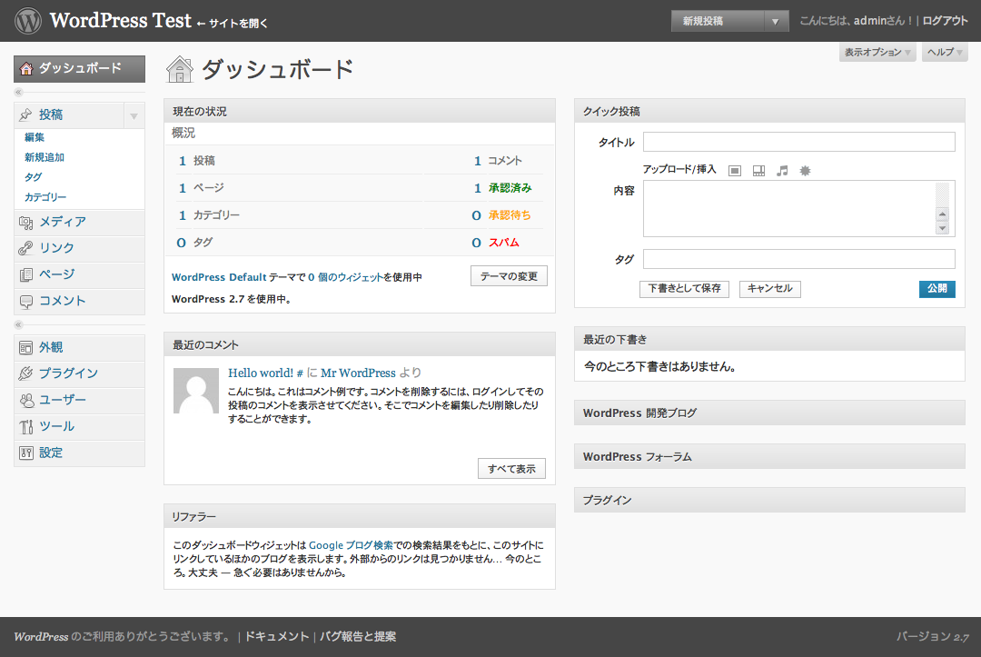 Screenshot of Wordpress 2.7 interface, taken myself.